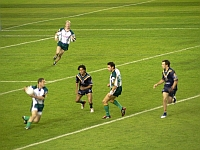 Australia vs Ireland. International Rules Football at the Telstra Dome- 2005 SECOND TEST (..::jP::..) - Melbourne, Australia.